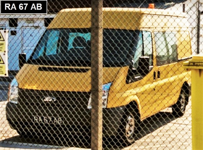 Gibraltar military license plate, RA = Royal Army / Air Force